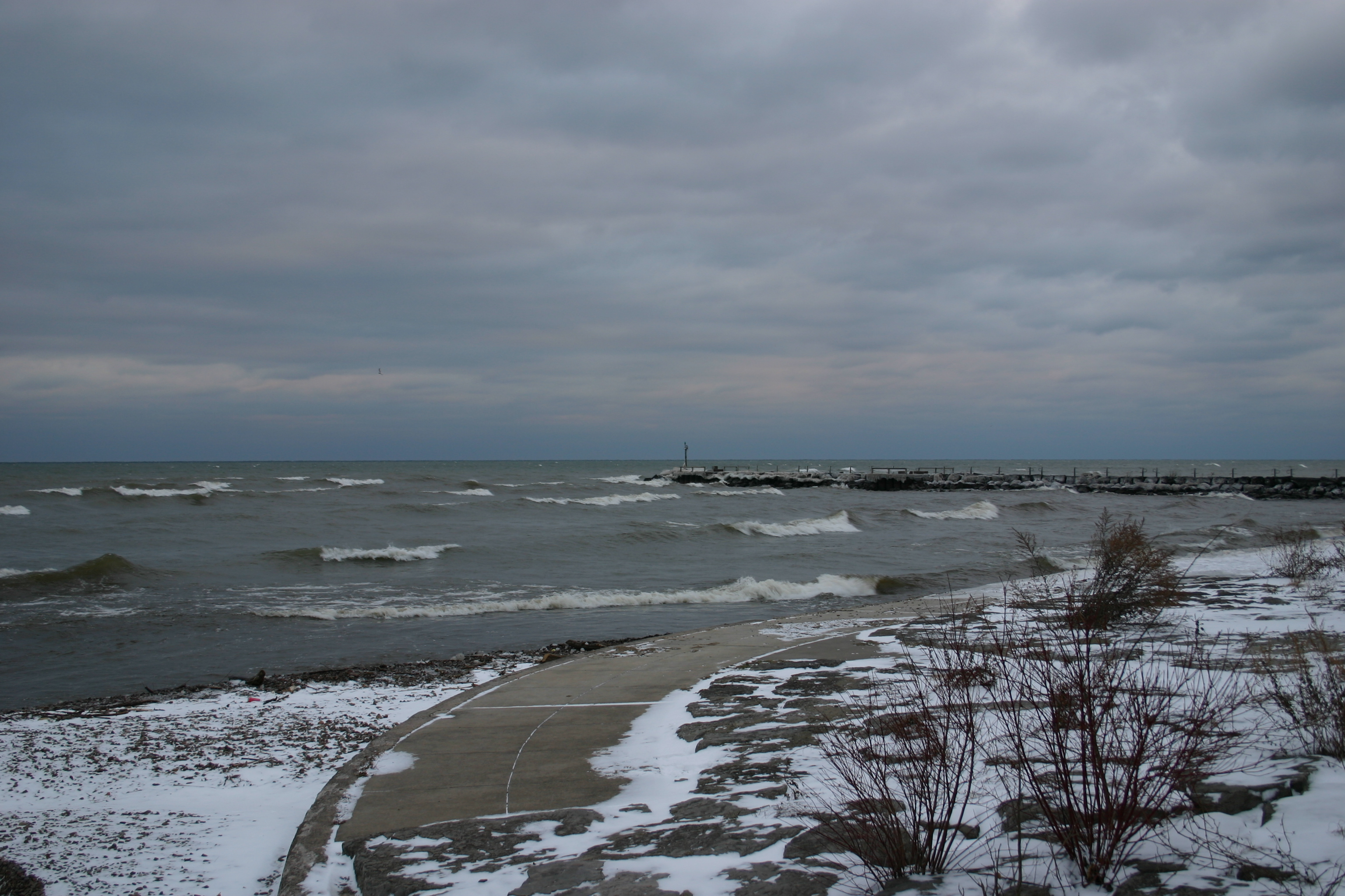 This is a picture of Lake Ontario taken from Webster Park in Webster, NY.